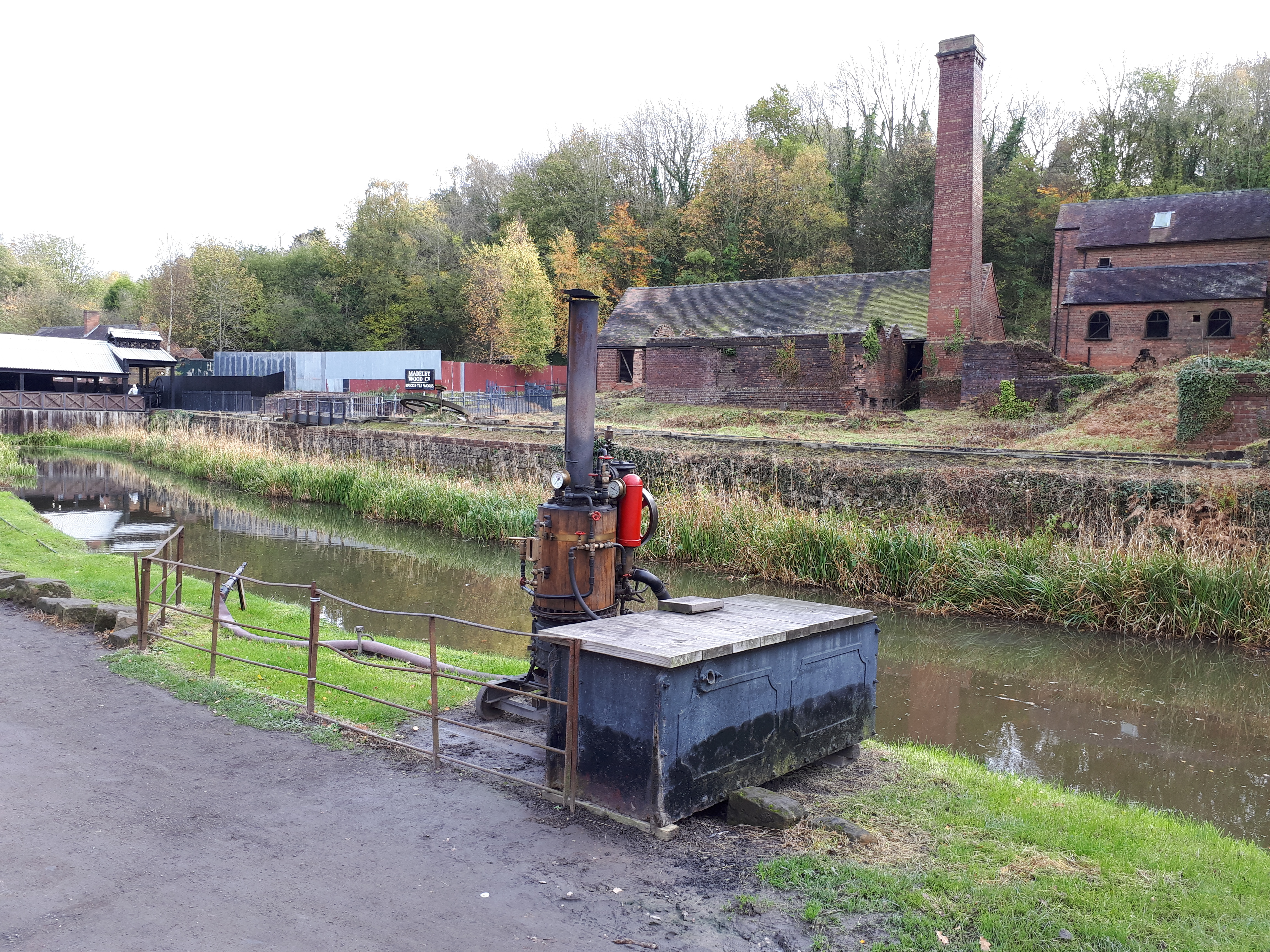 The Shropshire Canal at Blists Hill Victorian Town passes in front of the derelict Madeley Wood Brick and Tile Works